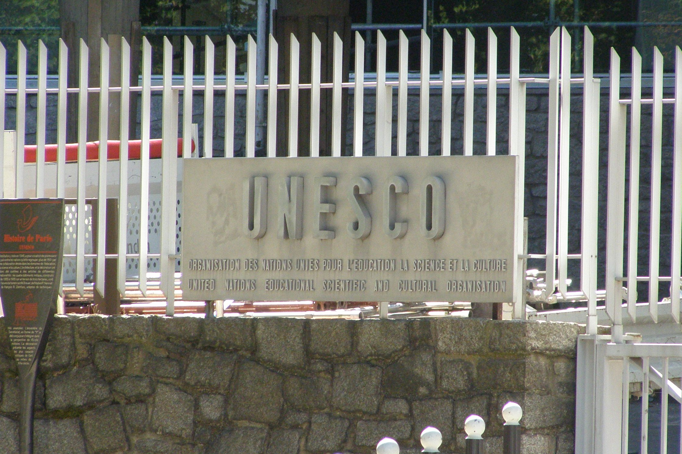 A sign at UNESCO headquarters in Paris, France.